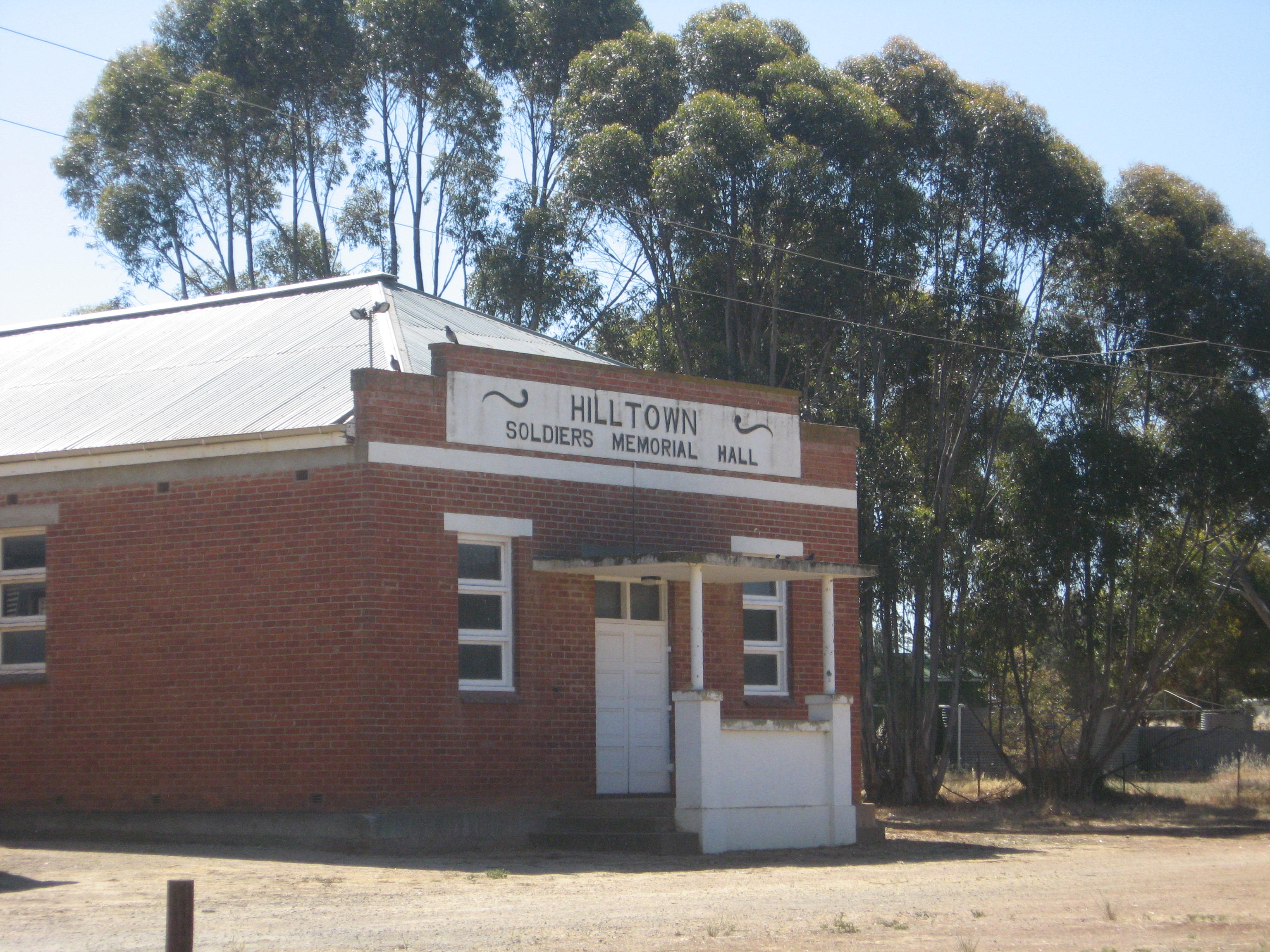 Township of Hilltown, Hill River, South Australia.